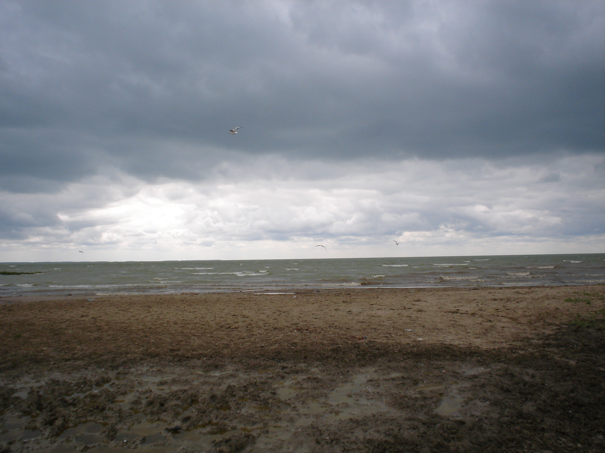 Lake Sartlan, near Taskaevo